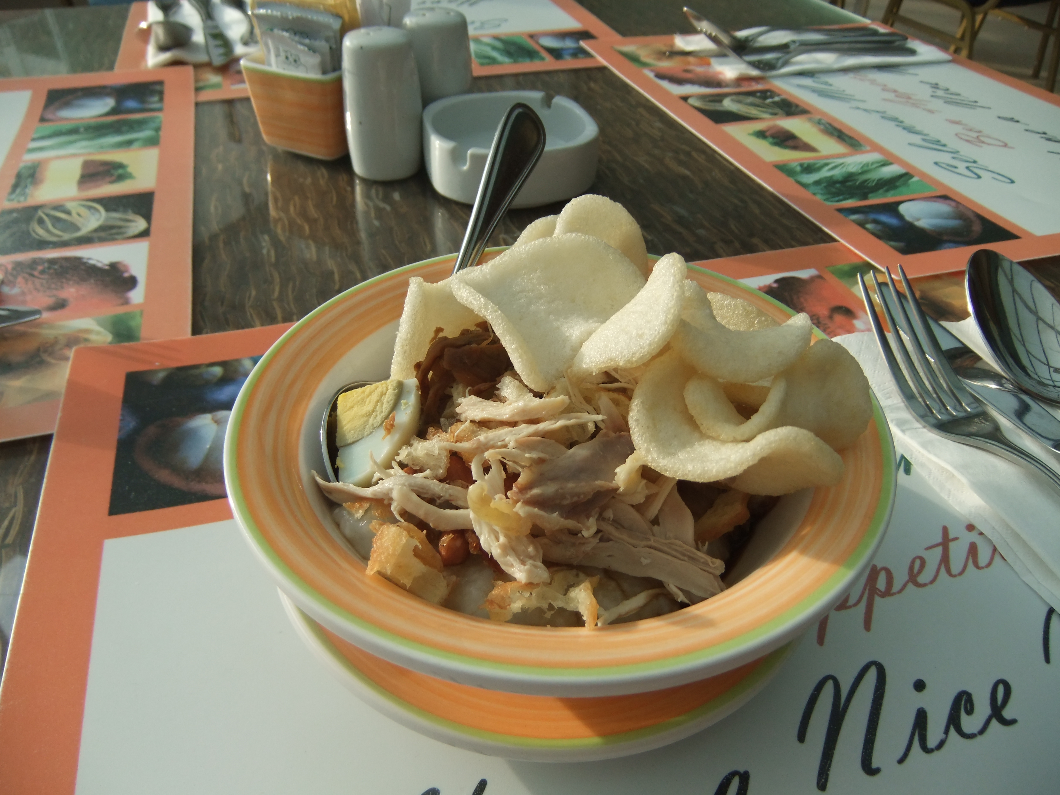 Chicken porridge, Solo